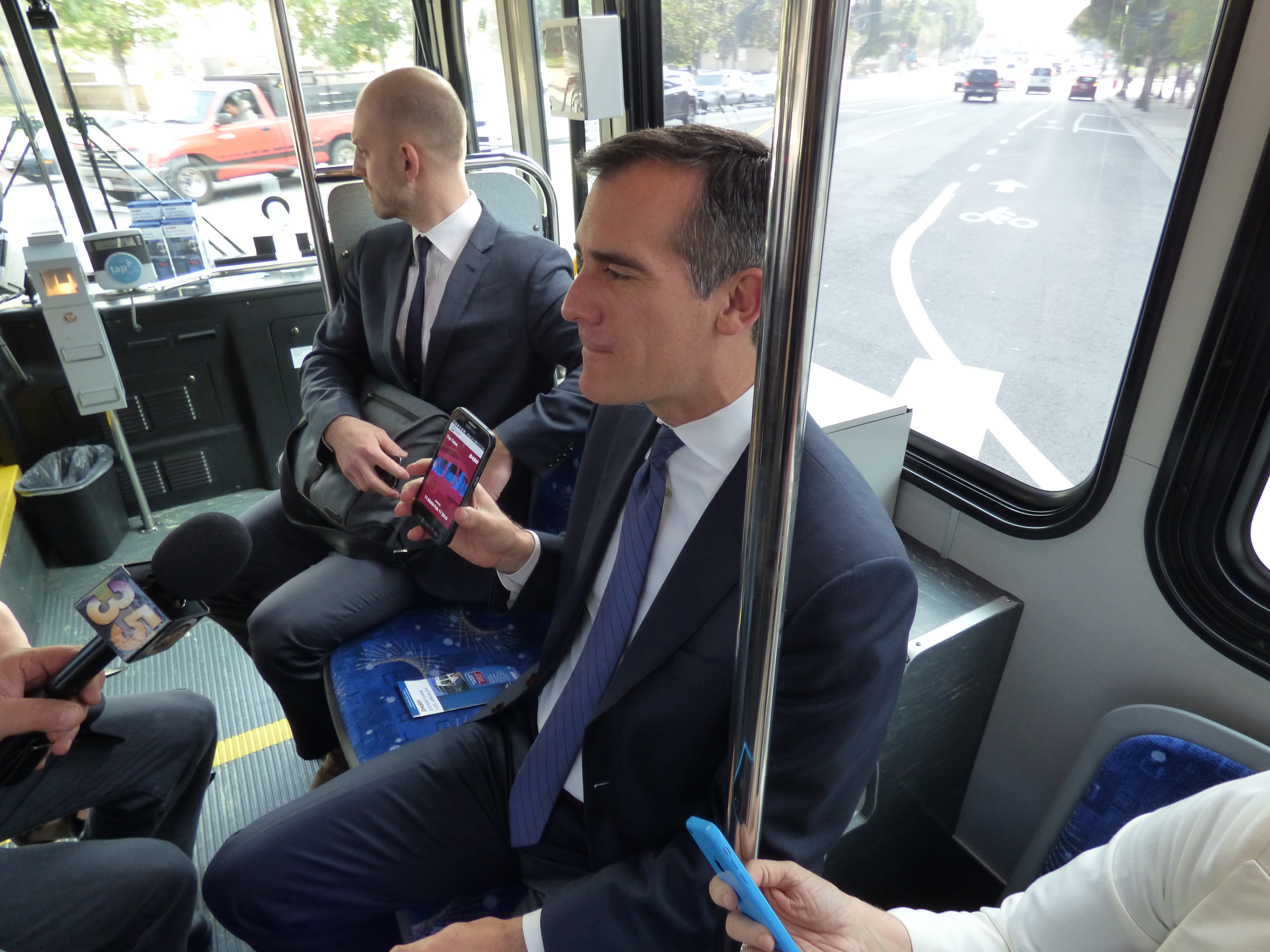 Mayor Garcetti announces new LADOT mobile app to allow bus riders to pay there fares with their phones.